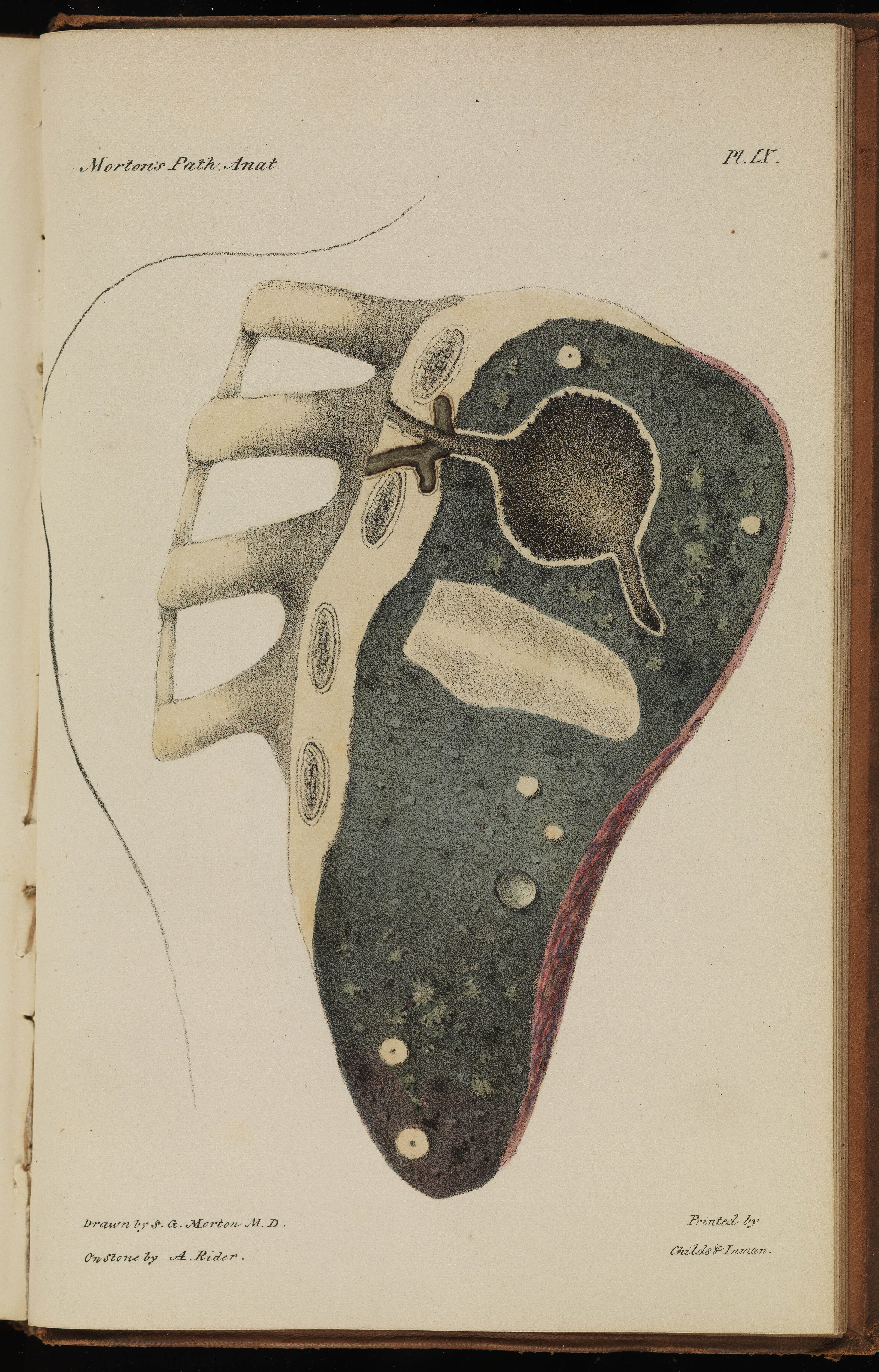 Illustrations of pulmonary tuberculosis. Rare Books Keywords: Tuberculosis